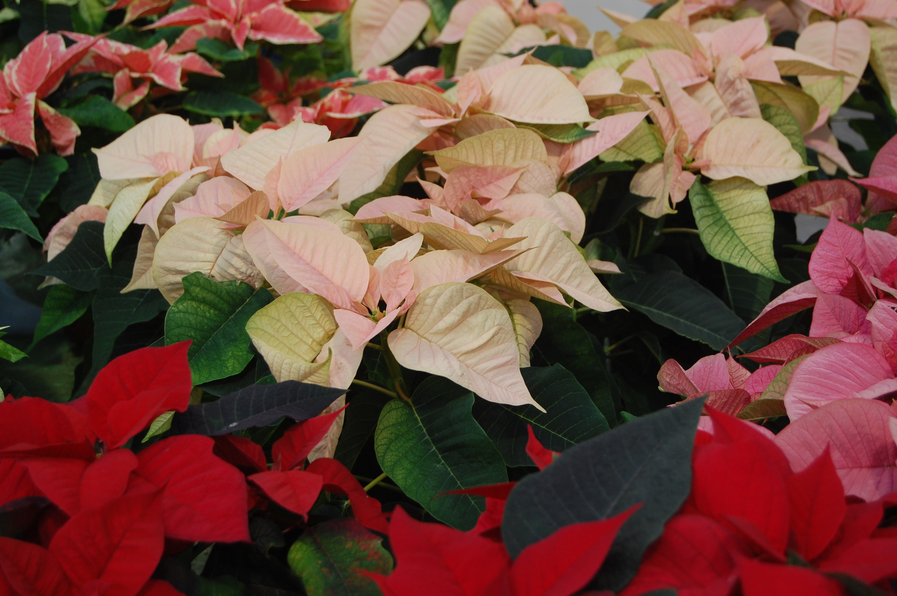 Several varieties of Poinsettia, (Euphorbia pulcherrima), on sale at Melbicks garden centre, Coleshill, England.